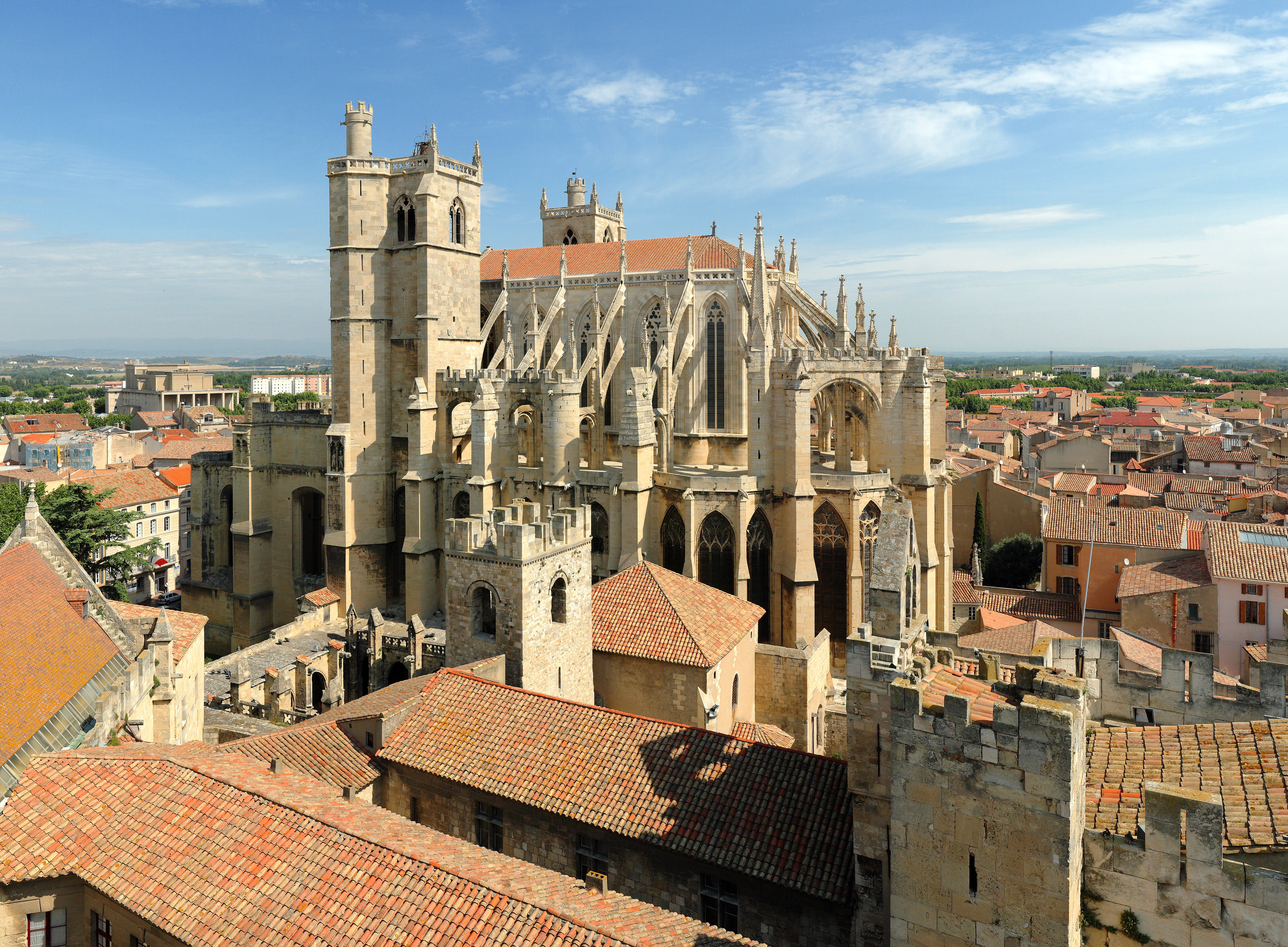 Saint-Just and Saint-Pasteur Cathedral, in Narbonne, south of France, seen from the Gilles Aycelin dungeon. This picture is a mosaic of 9 pictures (3x3), taken at 31mm on a 1.6 crop body, (50mm équiv.), f/8.0, 1/640s and ISO 100. Stitching was done with Hugin and Enblend. Resulting horizontal FOV is 90°. Exposure adjusted 2013-01-13.